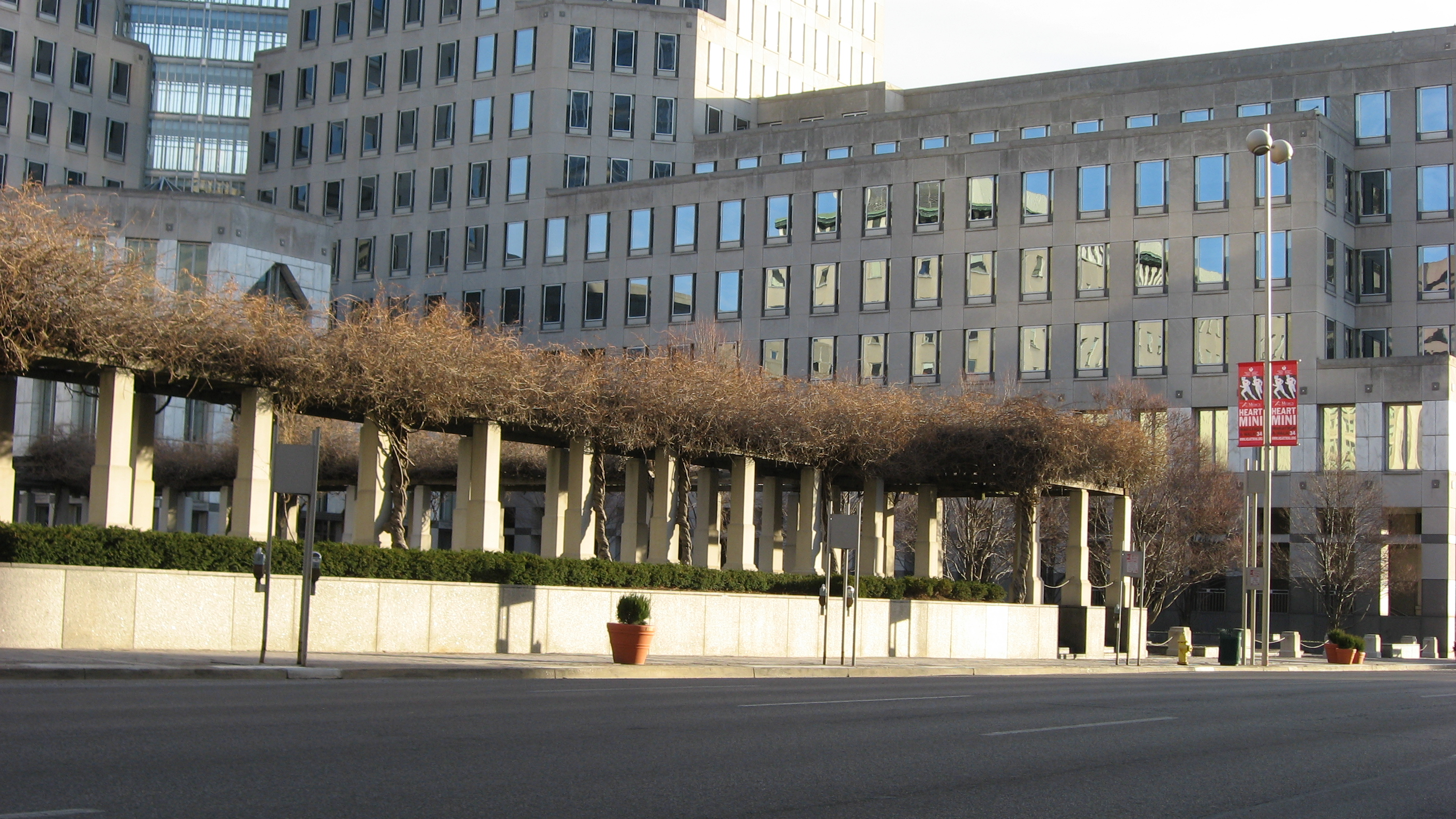 A massive trellis located at 426 E. Fifth Street in downtown Cincinnati, Ohio, United States. This lot was formerly the location of Fenwick Club Annex; built in 1885, it is listed on the National Register of Historic Places despite having been destroyed.